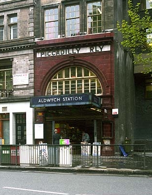 Aldwych tube station, London. Reduced to just peak-hour openings, taken shortly before its closure on 30 September 1994. This poorly used and badly treated former underground station is now used for filming.